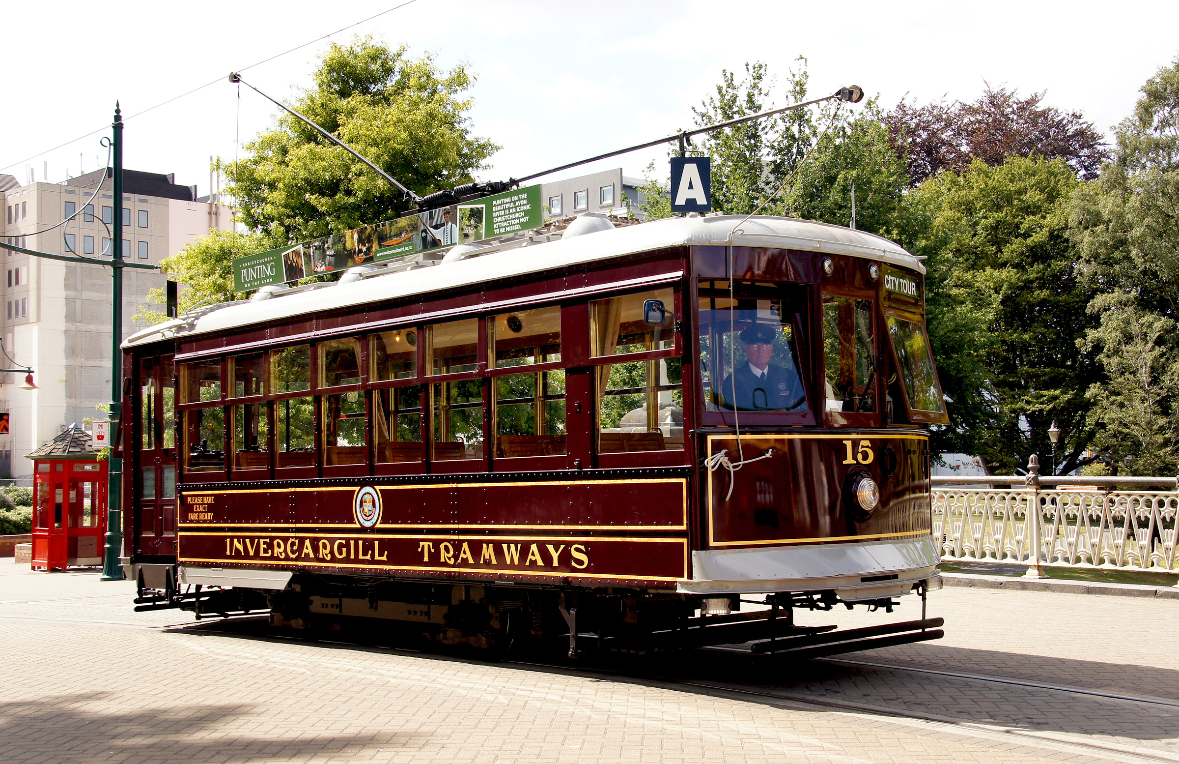 A piece of Invercargill's history is trundling around the Garden City, helping return a sense of normality to Christchurch. Invercargill Tramways' tram Birney number 15 was rescued by Christchurch-based Heritage Tramways Trust from a Waimatuku property in 2010. They've faced the obvious earthquake-related challenges to be able to restore the tram. A piece of Invercargill heritage rescued from a life as a sleepout has been restored to its former glory. Invercargill Tramway’s Birney number 15’ tram Birney number 15 was rescued by Christchurch-based Heritage Tramways Trust from a Waimatuku property in 2010. You can now find number 15 gliding through the streets of Christchurch on the newly reopened Tourist Tramway, with the old Invercargill City crest emblazoned on the side above the Invercargill Tramways logo.